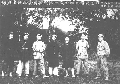 Taken on 7 November 1931, the date in which the Chinese Soviet Republic was established. From left to right: Gu Zuolin, Ren Bishi, Zhu De, Deng Fa, Xiang Ying, Mao Zedong and Wang Jiaxiang